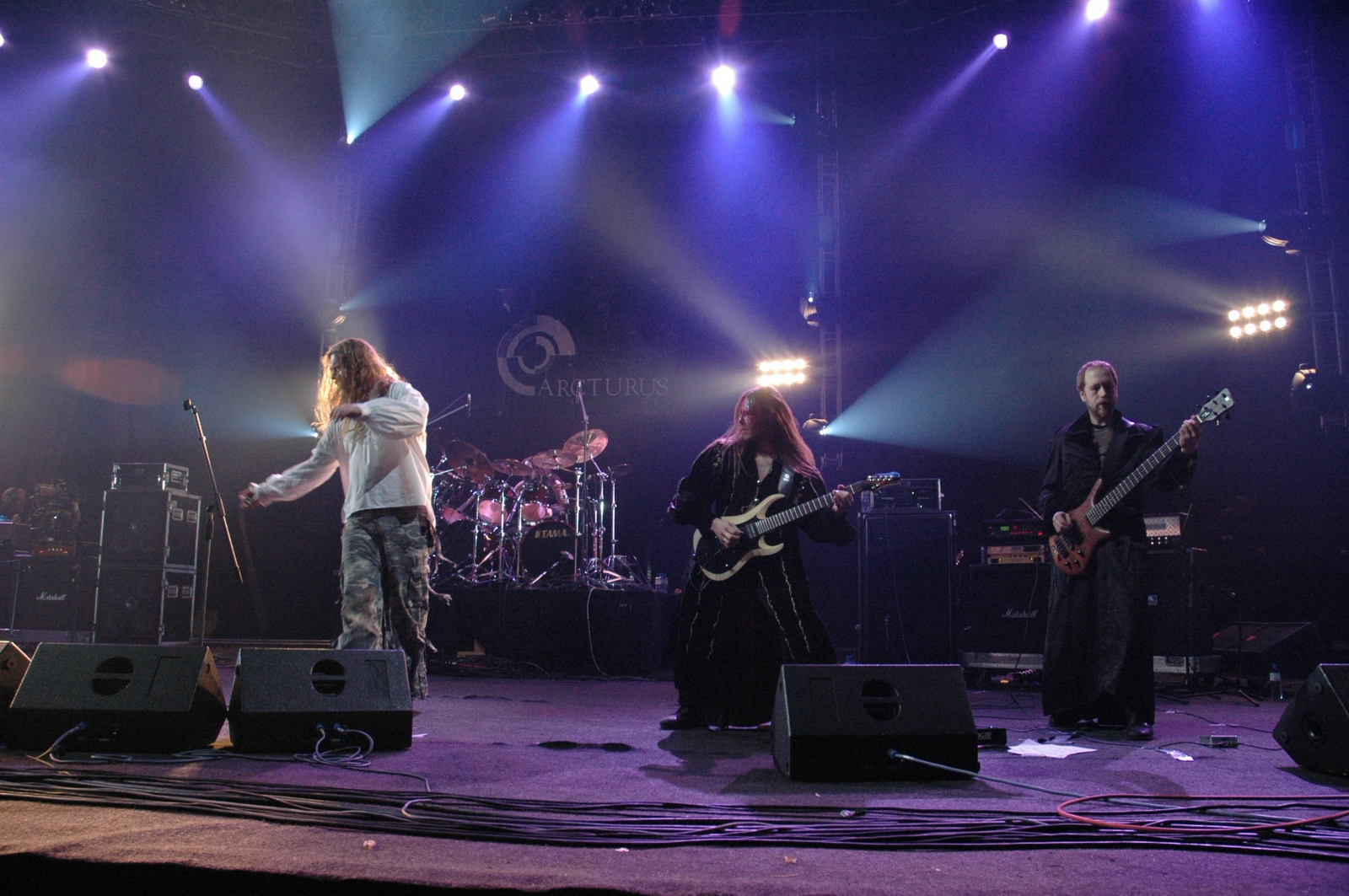 Arcturus band at Metalmania Festival 2005 in Poland - from left: Simen "Vortex" Hestnæs, Knut Magne Valle, Hugh "Skoll" Mingay; Jan Axel "Hellhammer" Blomberg on drums